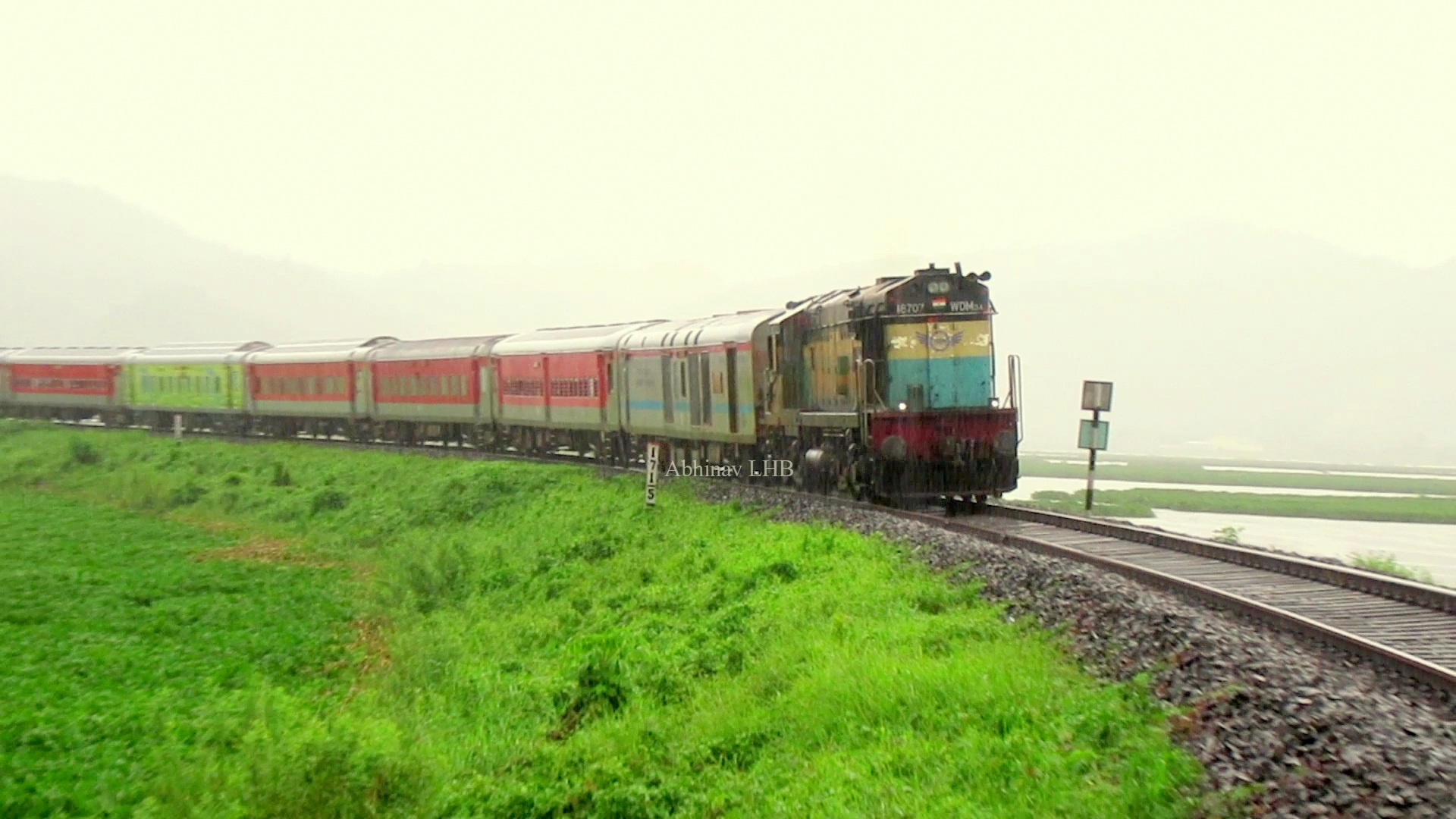 19305 Indore - Guwahati Express (LHB), hauled by Ratlam (RTM) ALCo WDM3A #18707 approaching Guwahati, captured amidst #Heavy #Rain. Please do watch the video